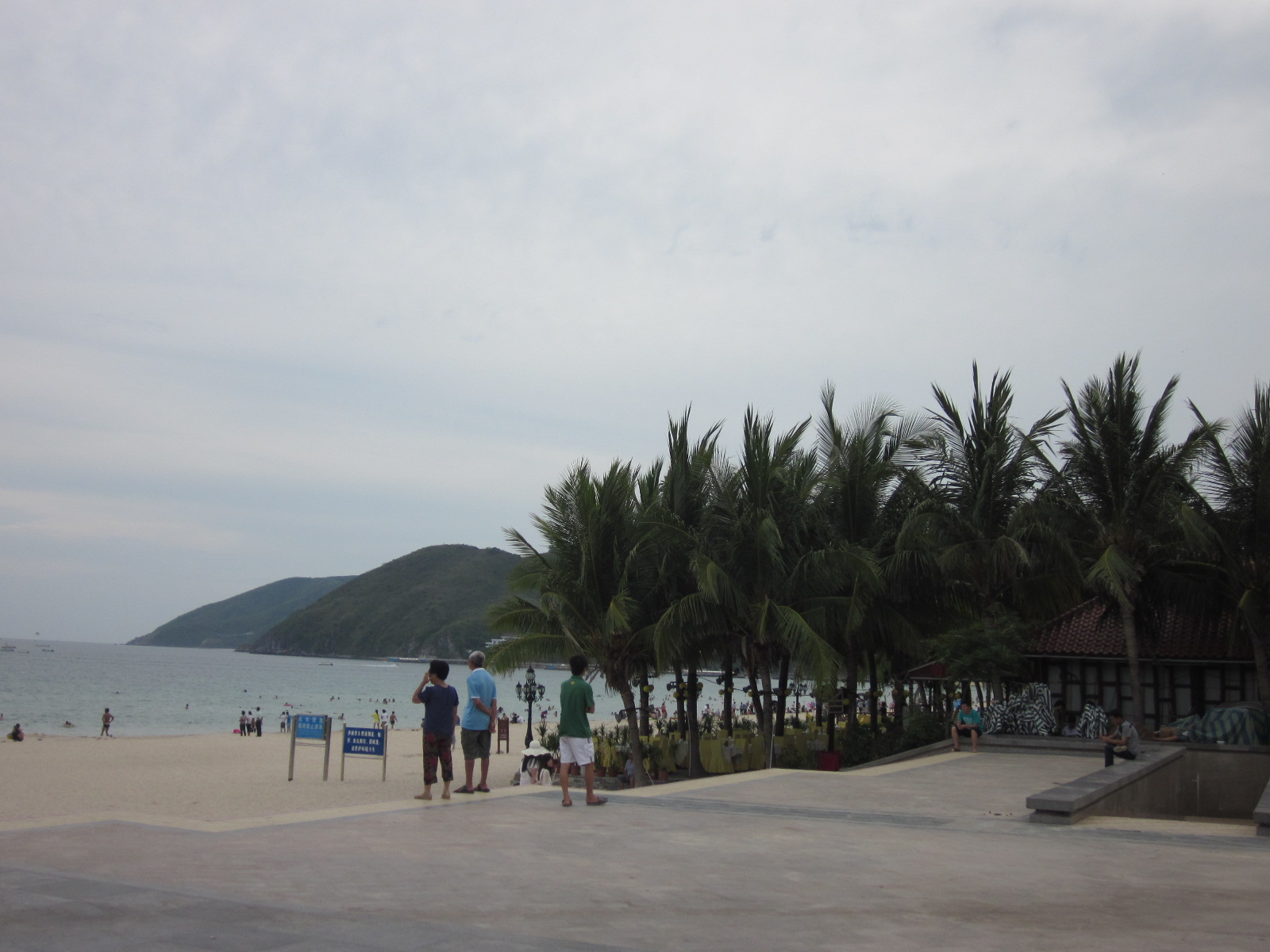 Dadonghai